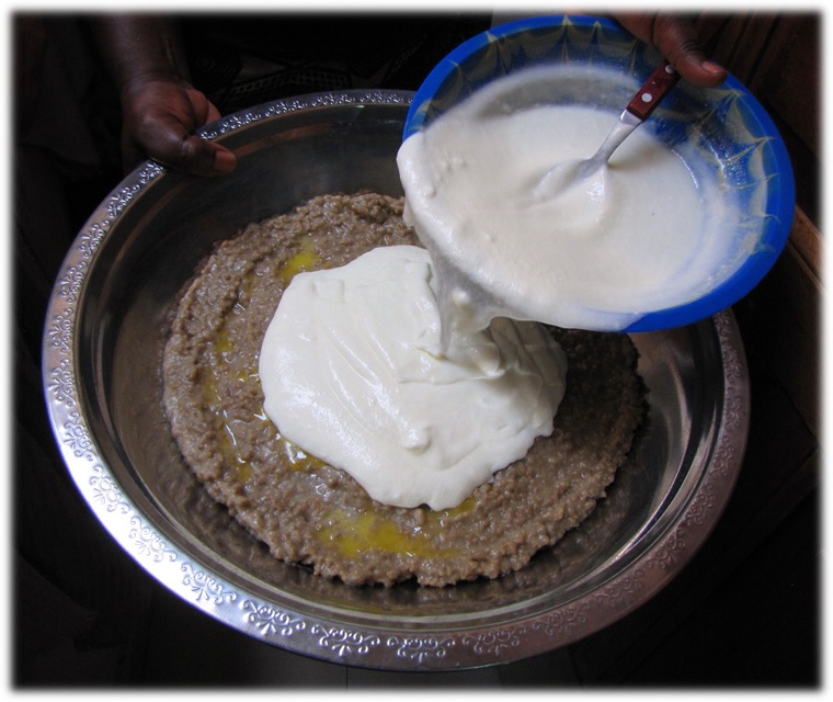 Sweetened fermented milk or yoghurt (sow in Wolof, lait caillé in French) is carefully poured over boiled millet porridge (lakh in Wolof) in as customary, a large, communal platter, just before serving, here shown in Senegal. (Millet flour called soungouf in Wolof - names vary between languages) Note: Millet produces a seed with a hard and inedible hull. It must be milled by hand or by machine to remove this hull before it can be ground into millet flour. Millet-based recipes in Africa are based on sifted millet flour or rolled millet flour pellets, not on unprocessed millet seeds This is an image of food from Senegal